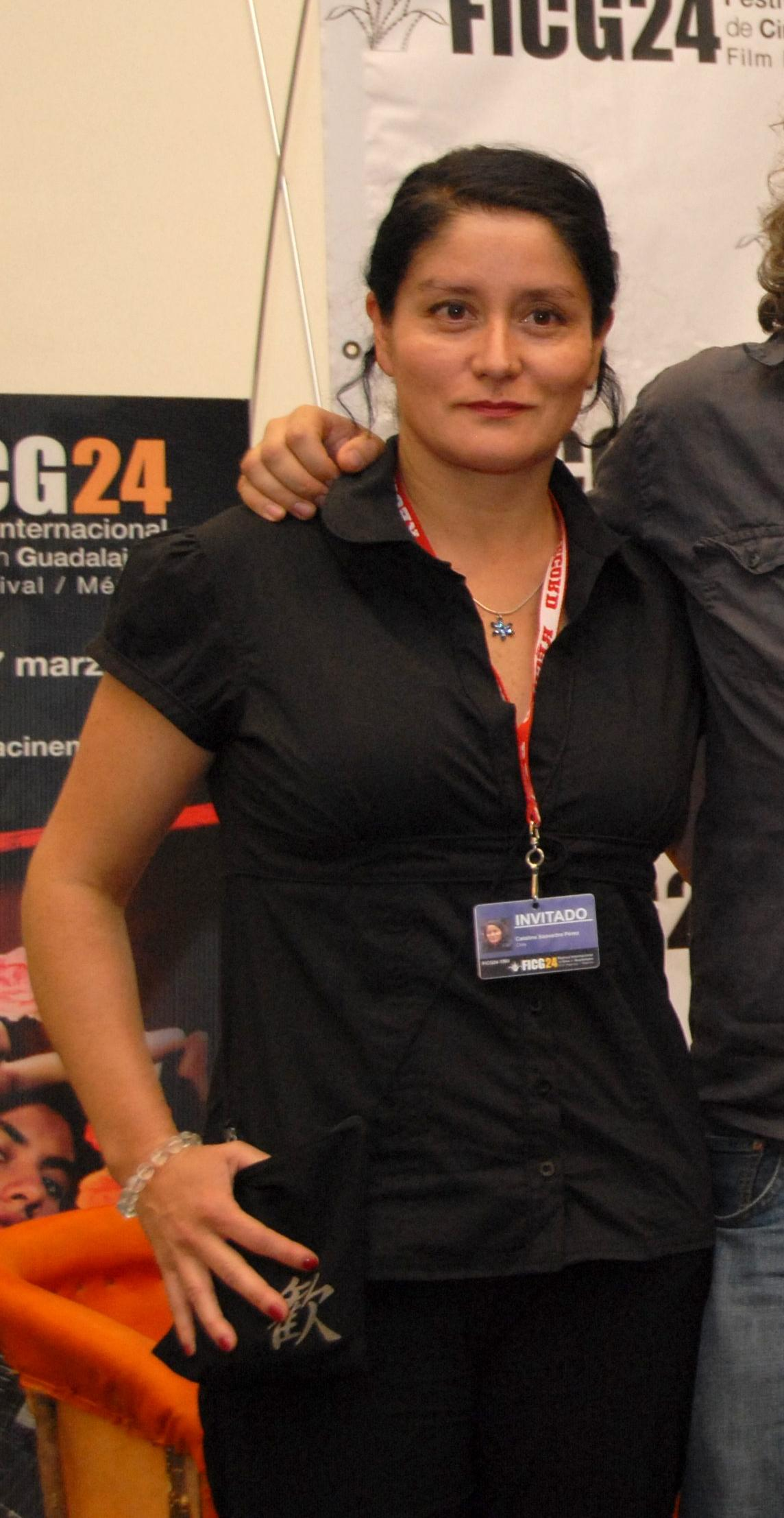 Actress Catalina Saavedra.